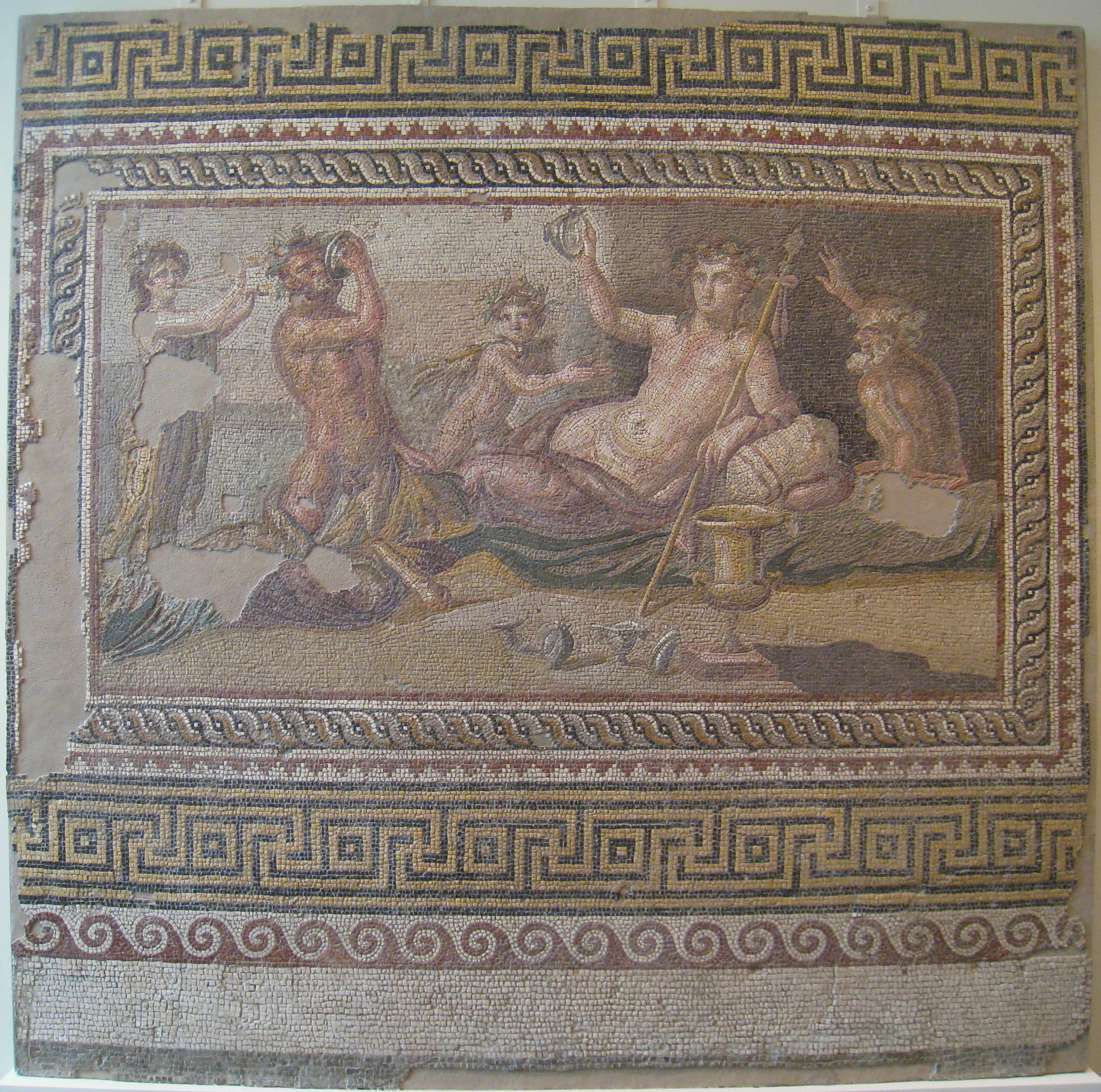 Antioch mosaics in the Worcester Art Museum, Worcester, Massachusetts, USA